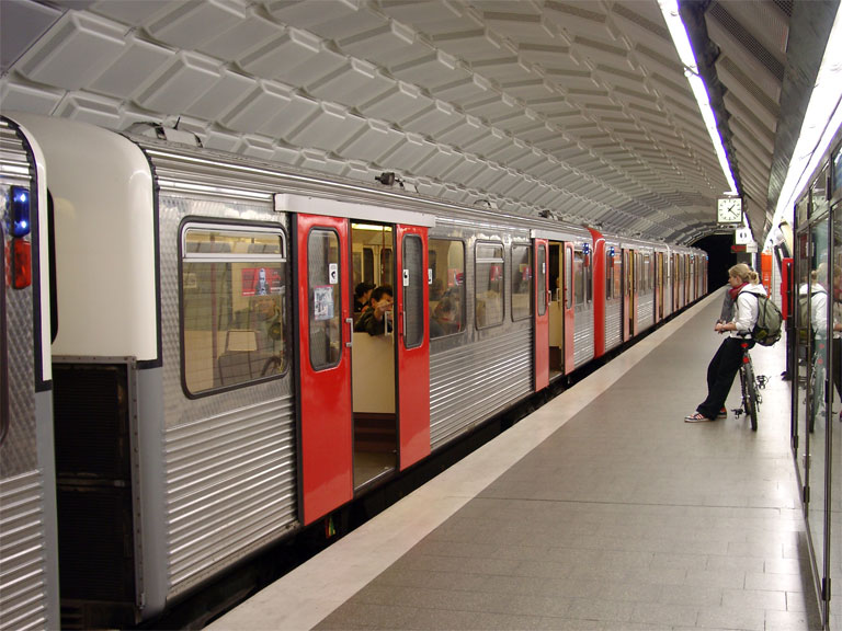 Hamburg U-Bahn's train type DT3 at Hauptbahnhof Nord station; Hamburg, Germany